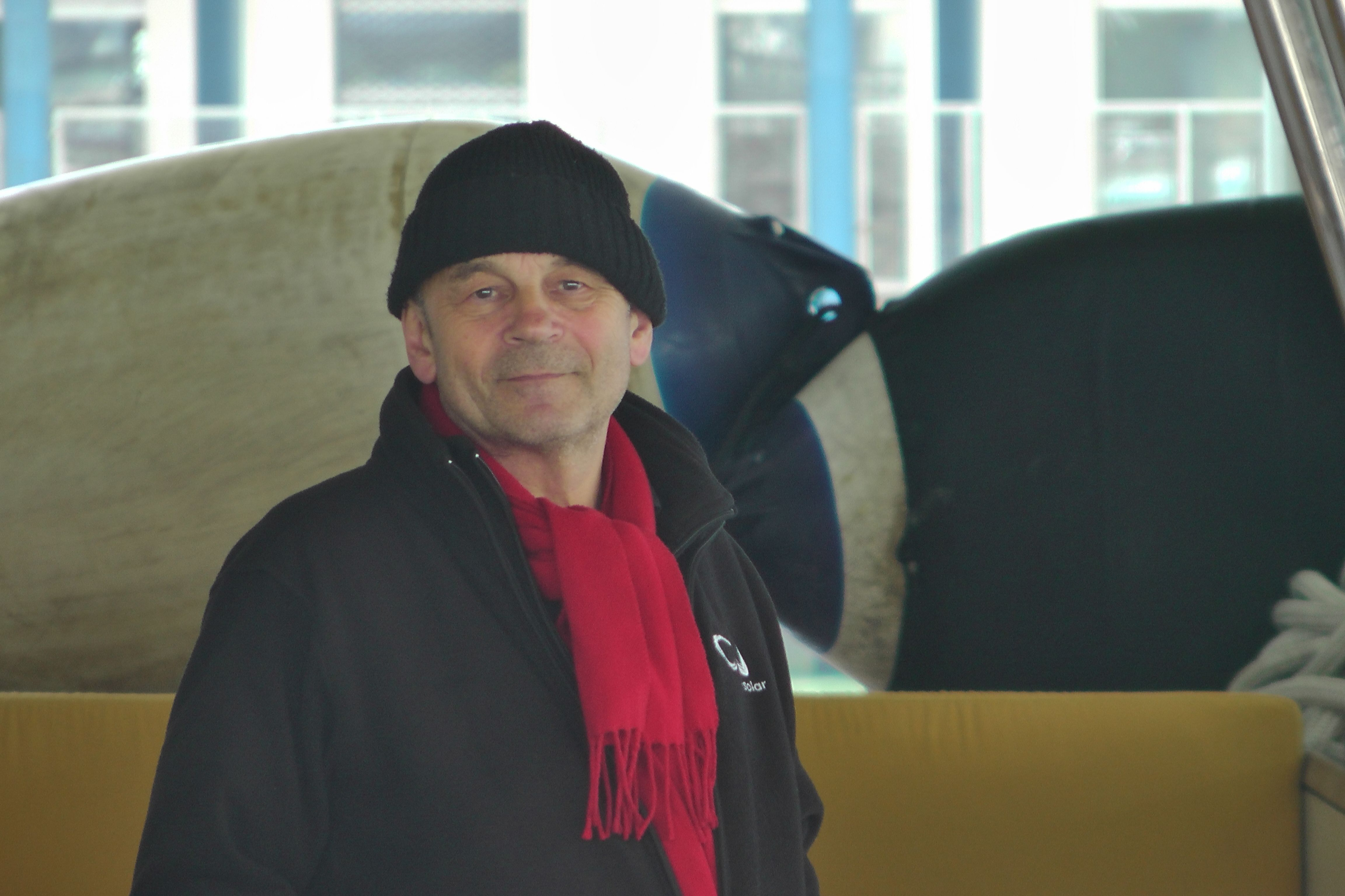 Captain Gérard d'Aboville on the living deck in the PlanetSolar, Boulogne sur Mer. Photo taken on 19/04/2014.